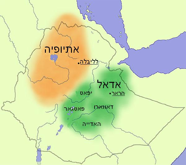 The Horn of Africa on the eve of the Battle of Adal in 1529. The Ethiopian Empire (Christians, in orange) and Adal (Muslims, in green).